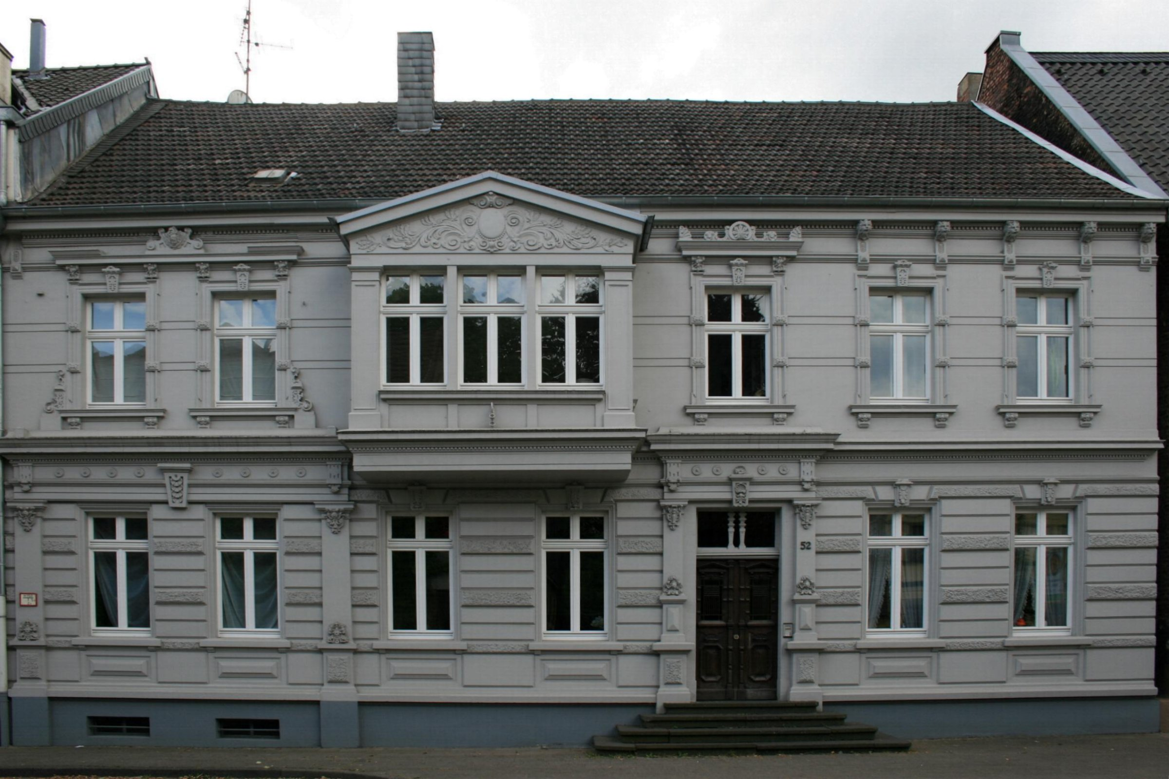 Cultural heritage monument No. B 016 in Mönchengladbach